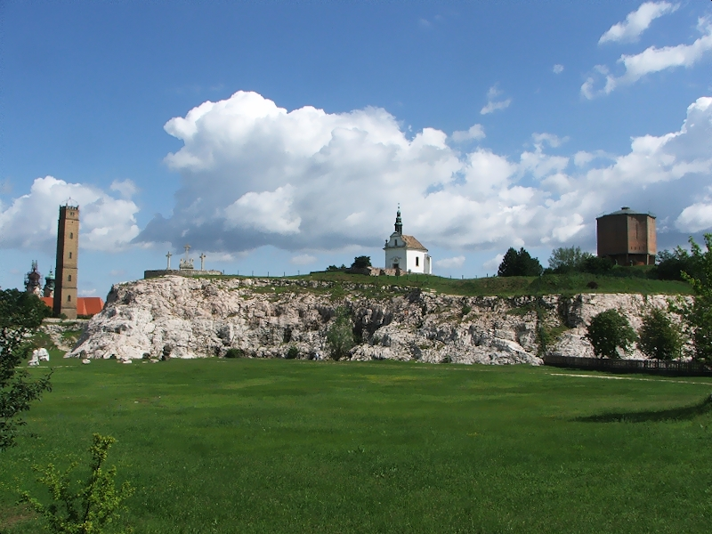 Calvary Hill in Tata city, Hungary